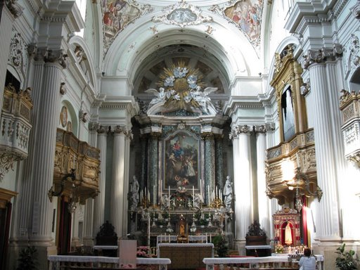 Altarpiece of St. Aloysius Gonzaga basilica, at Castiglione delle Stivere, his birthplace.